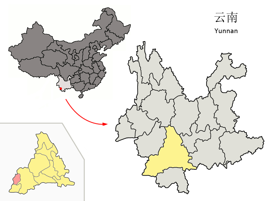 Location of Ximeng County (pink) and Pu'er Prefecture (yellow) within Yunnan province of China Map drawn in september 2007 using various sources, mainly : Yunnan province administrative regions GIS data: 1:1M, County level, 1990 Yunnan Counties map from